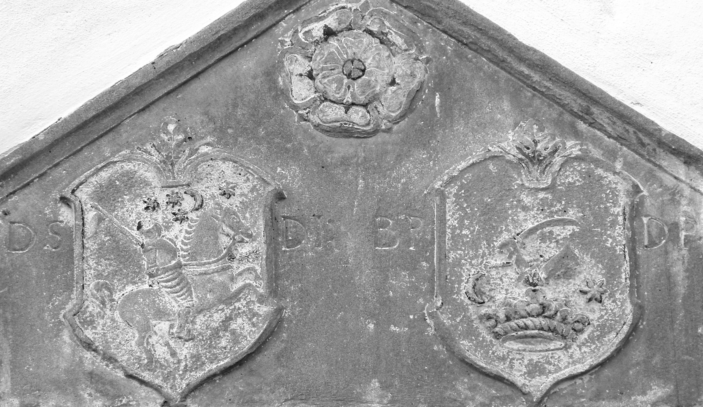 Coats of arms of Daniel Szunyogh and Barbora Pružinská. Portal of the manor house, Jasenica.